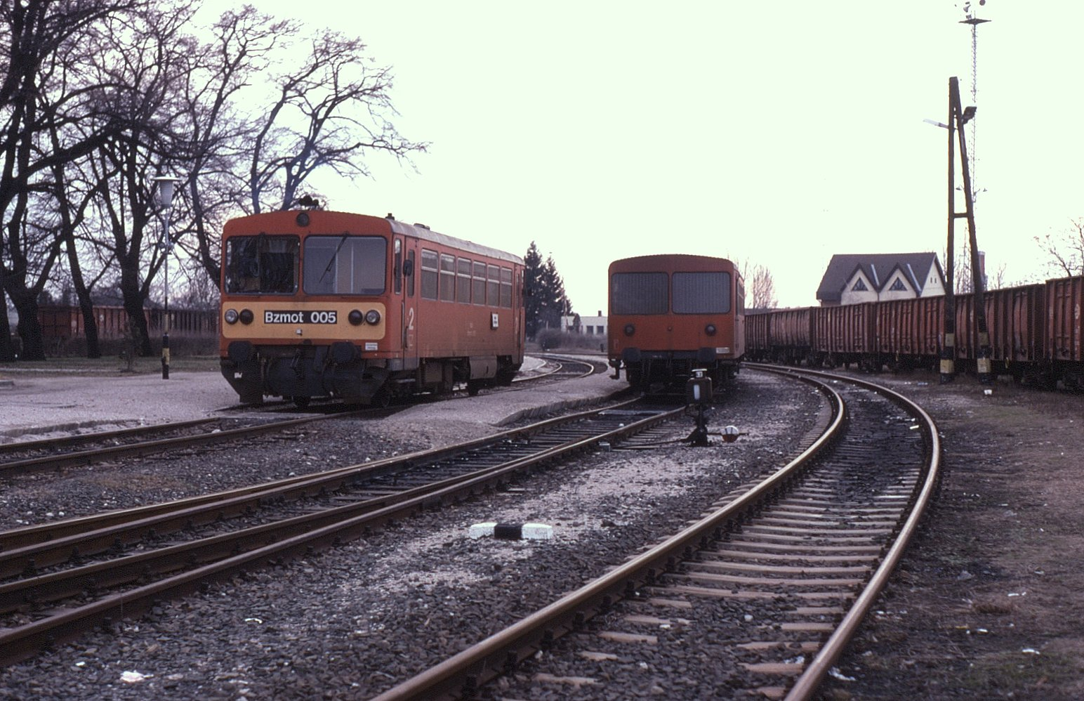 Bzmot 005 caught on camera whilst running round its trailer car at Mohács on 4 February 1998. Its next working was train 8121,17:00 Mohács to Pécs.